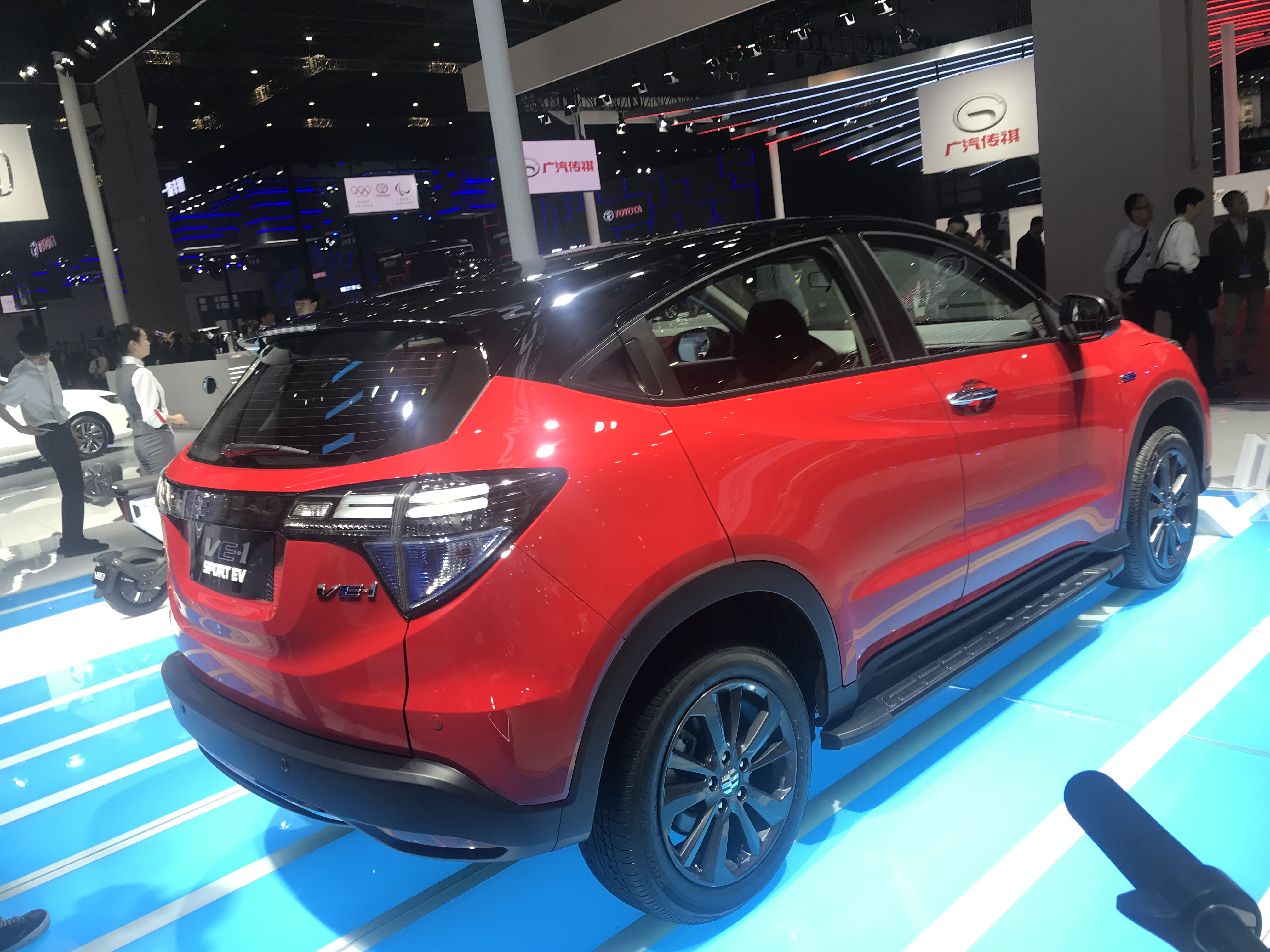 Everus VE-1 rear